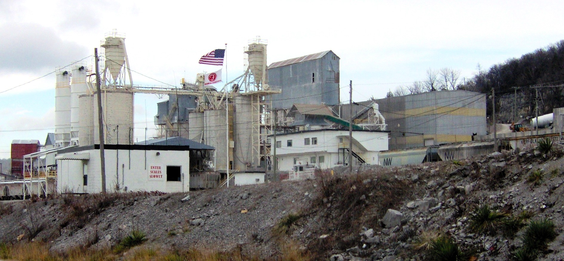 The Franklin Industrial Minerals quarry and plant in Crab Orchard, Tennessee, located in the Southeastern United States. The plant, which quarries and crushes limestone for use in cement and other products, is a familiar site to travellers who frequent Interstate 40 between Knoxville and Crossville.